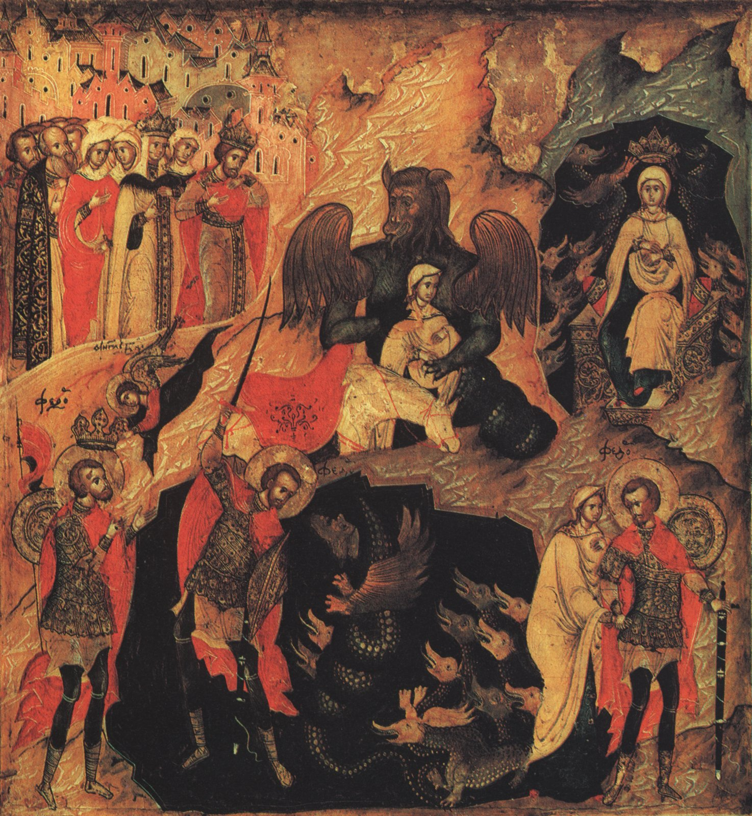 Saint Theodore's miracle